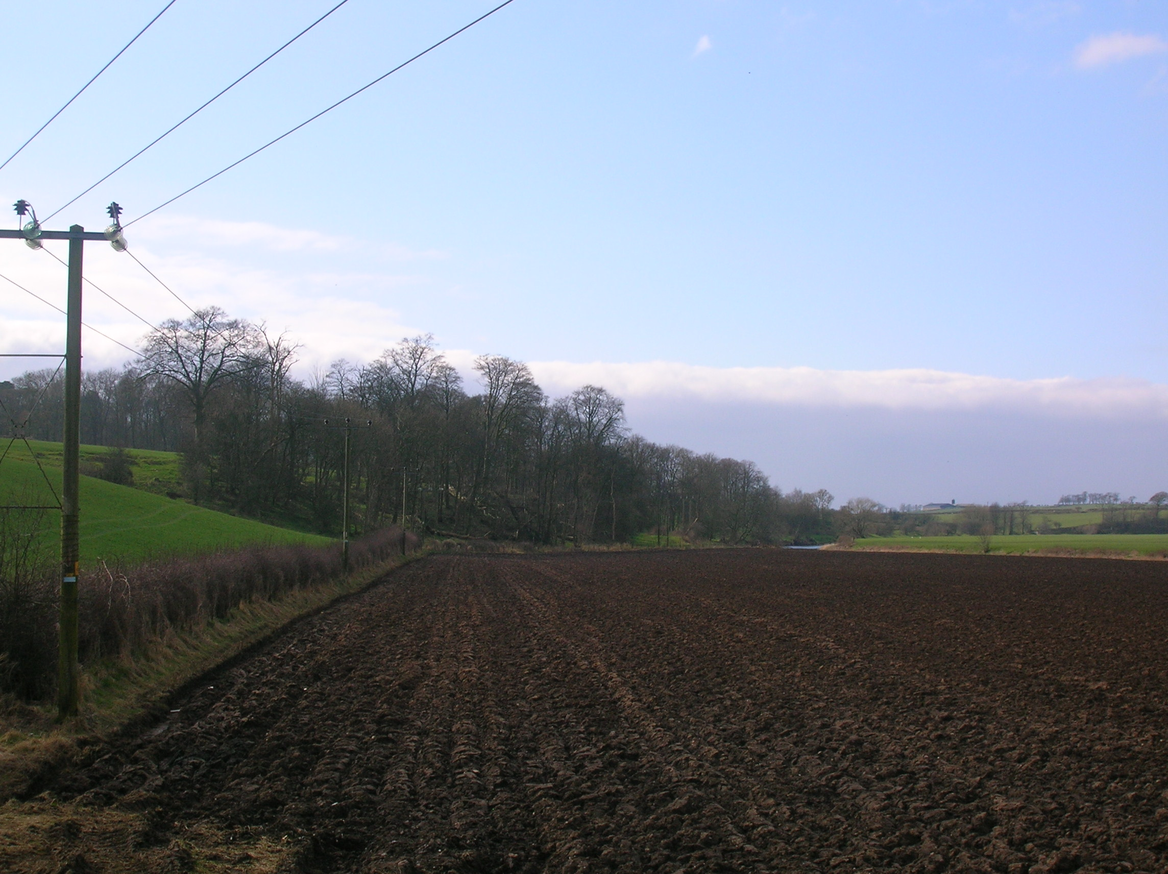 Fairlie estate woodlands and holm by the River Irvine, South Ayrshire, Scotland. 2007.